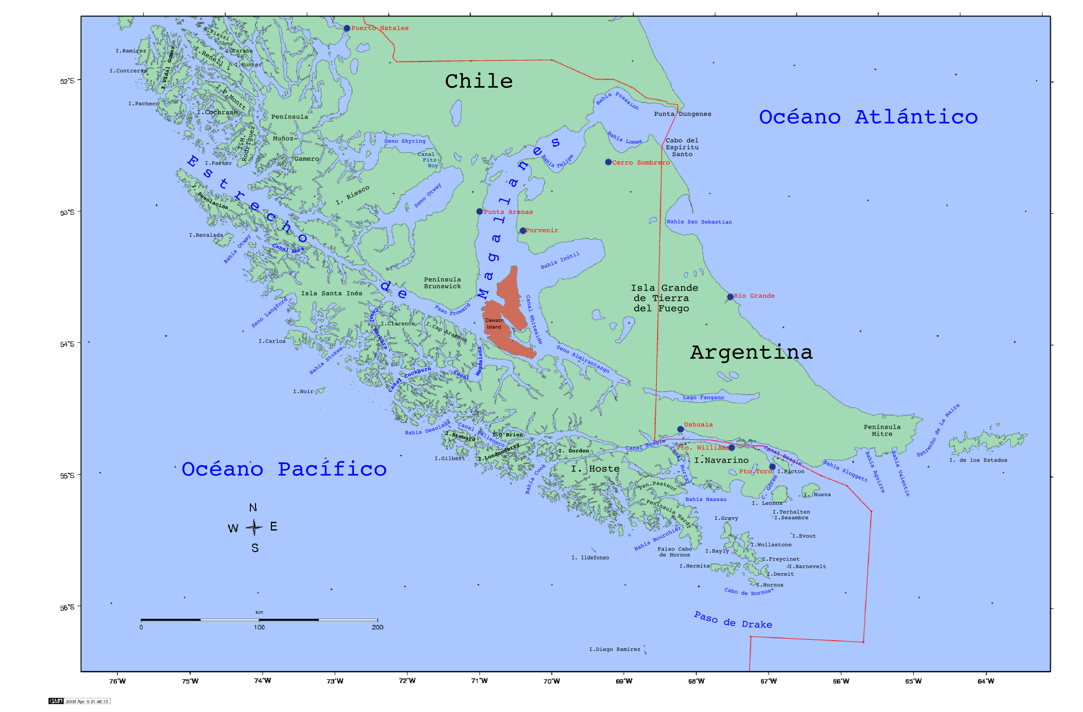 Dawson Island depicted within the Strait of Magellan, Chile